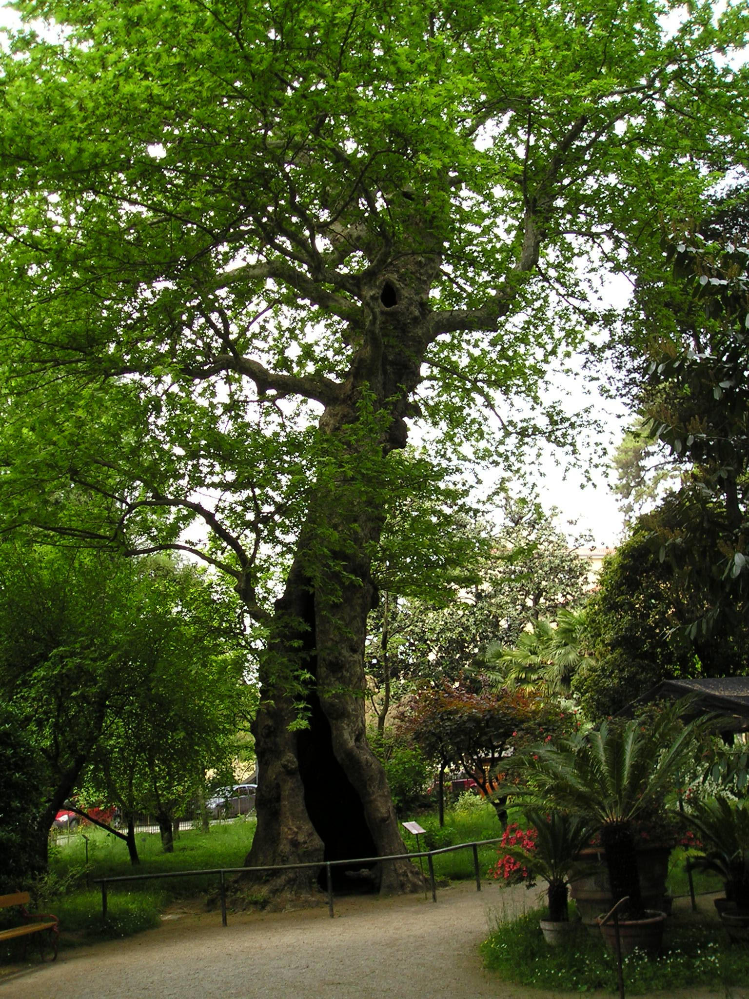 A plane tree (Platanus orientalis) planted in 1680 in the Botanical Garden of Padua; its trunk was struck by a lightning and is now hollow.